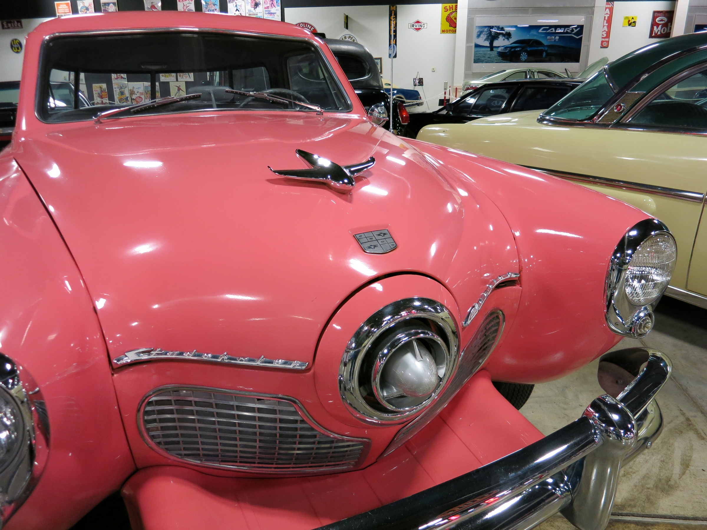 1951 Studebaker Champion Starlight Coupe Tupelo Automobile Museum Tupelo, Mississippi